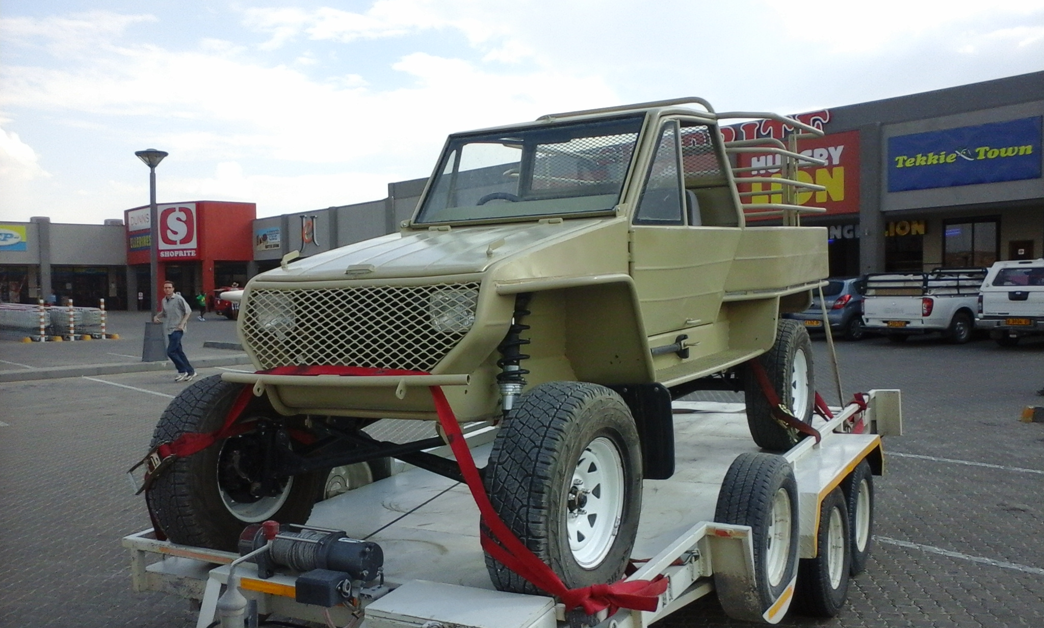 Uri vehicle on trailer in Okahandja, Namibia, October 2015. Right front view